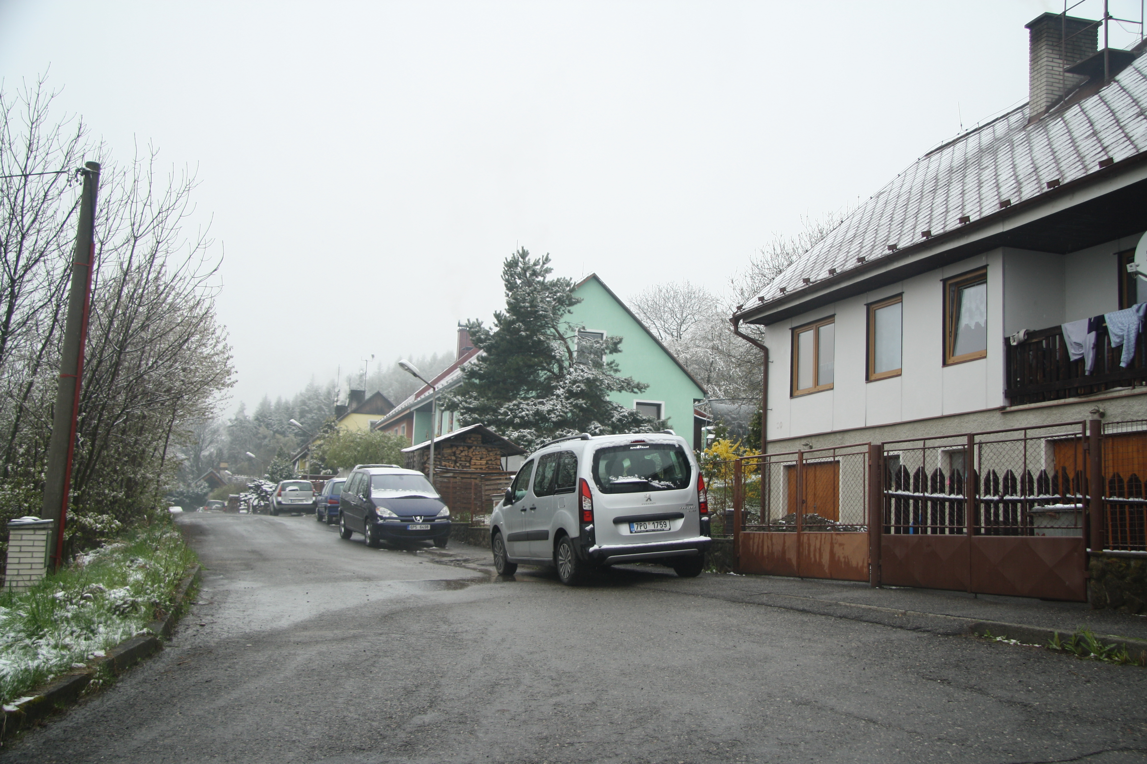 Houses in Záluží, Sušice, Klatovy District, in the foreground a Peugeot Partner Mk2 Tepee, in the background a Peugeot 807